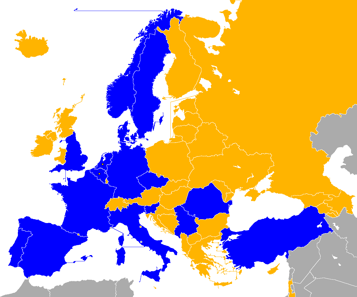 Euro 2000 qualifiers